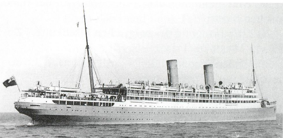 His Majesty's Troopship Royal Edward. Torpedoed and sunk by UB-14 on 13th August 1915, with the loss of 935 lives